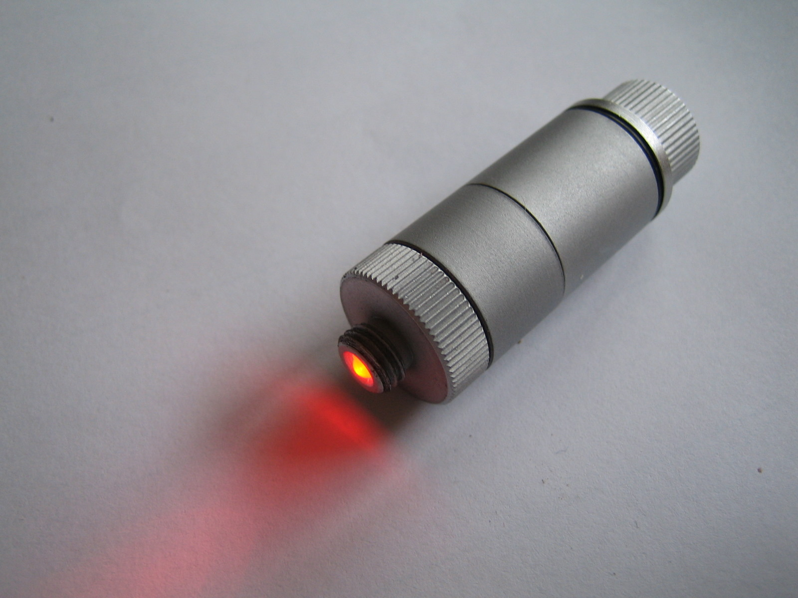 LED flashlight to enlighten a crosshair eyepeace